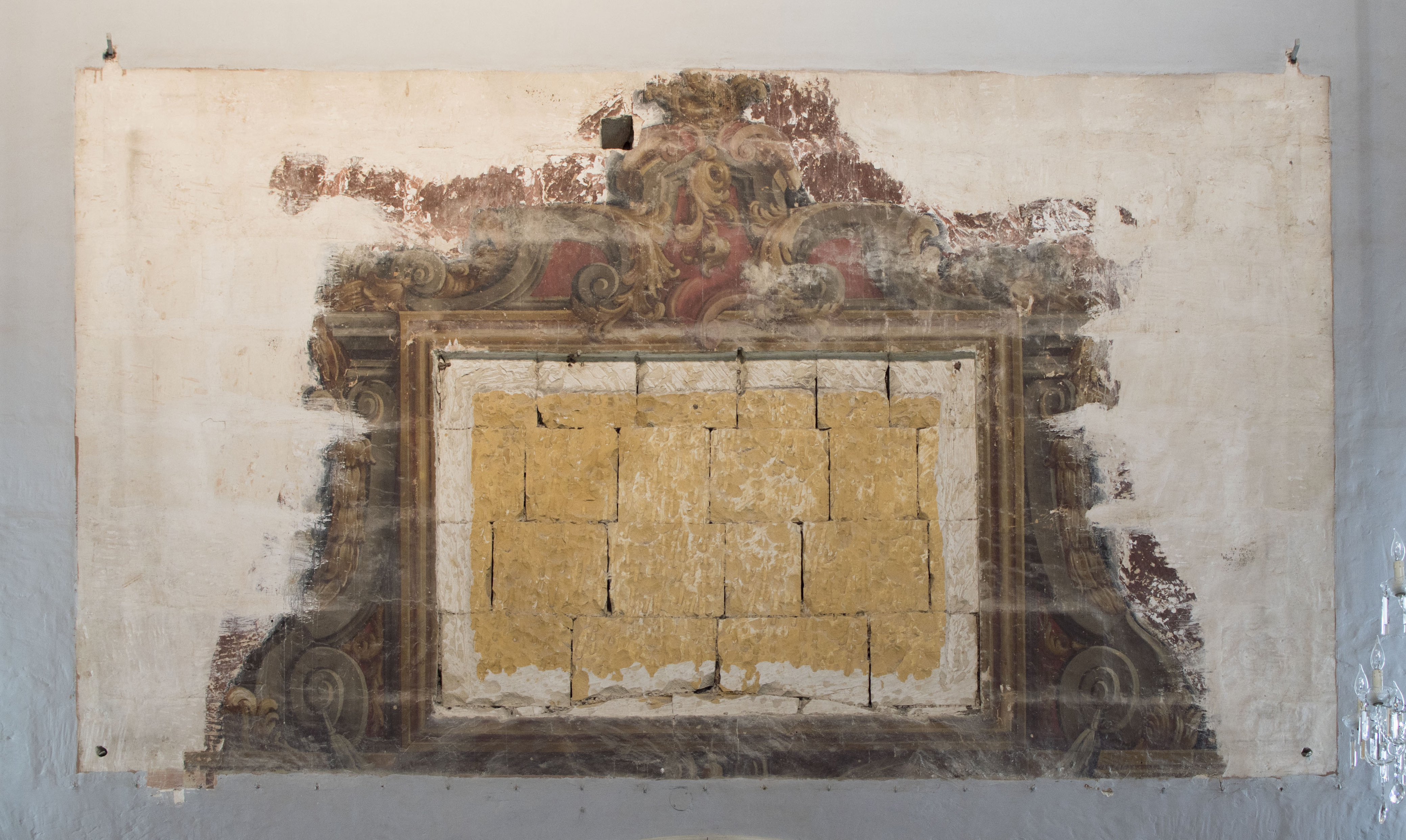 One of the frescoes discovered in 2017 inside the Old Parish Church of St. Venera in St. Venera Square, Santa Venera, Malta This media is about Maltese cultural property with inventory number 00199.